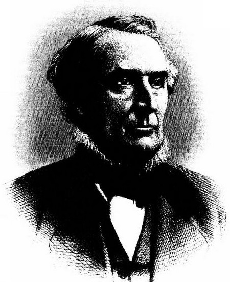 Augustus F. Allen, Congressman-elect from New York